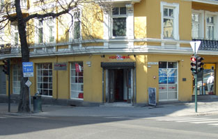 Video Nova Elisenberg on a nice autumn day.